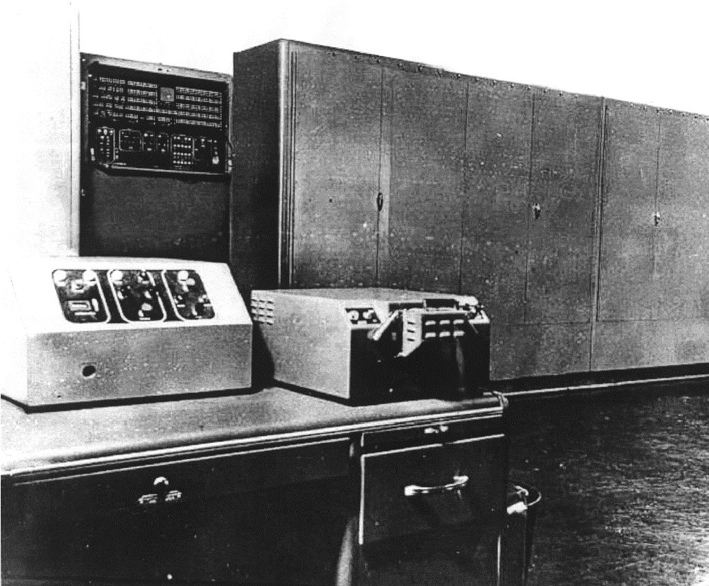 An ATLAS installation circa 1954.